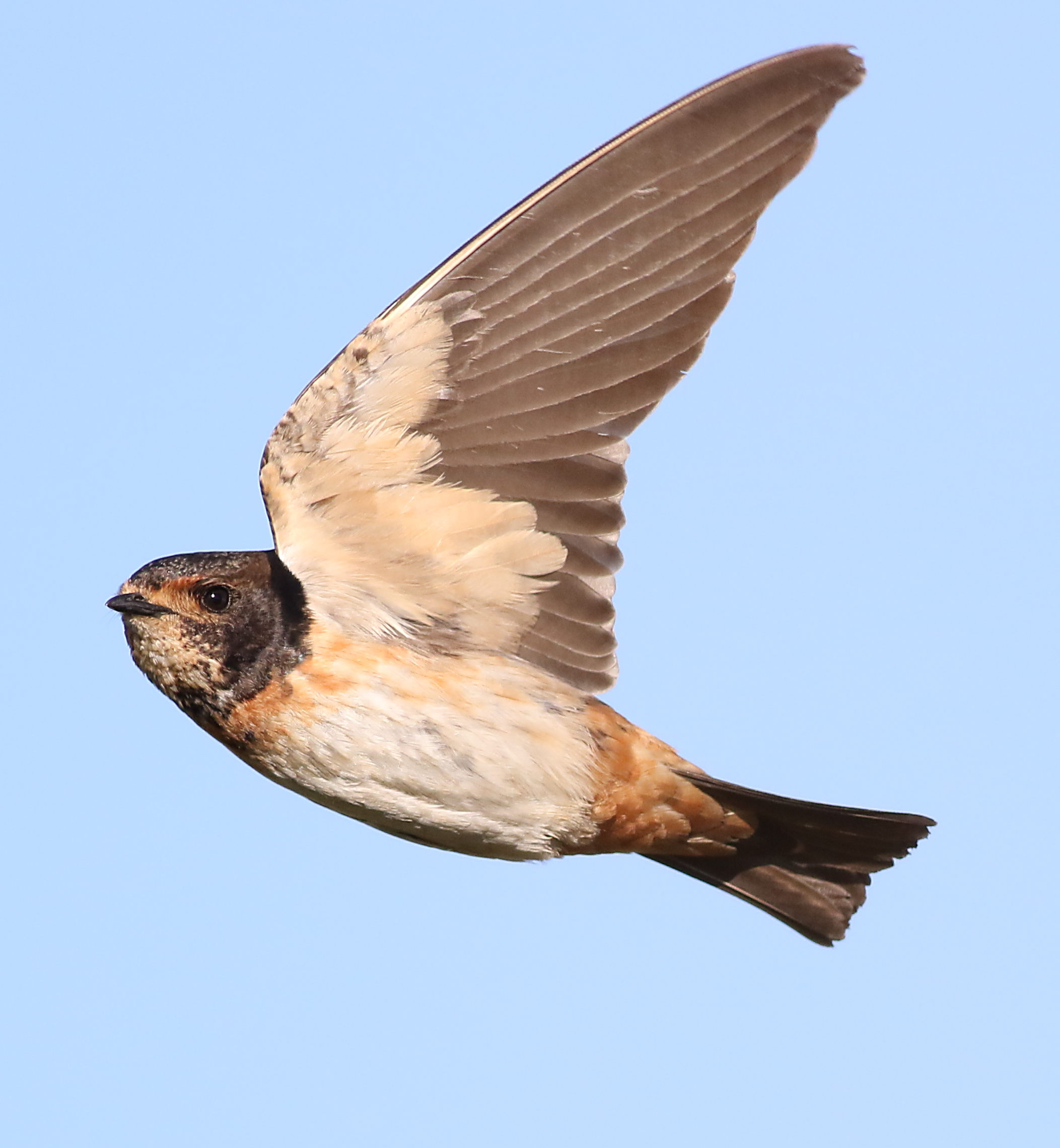 South African cliff swallow, Petrochelidon spilodera, at Suikerbosrand Nature Reserve, Gauteng, South Africa